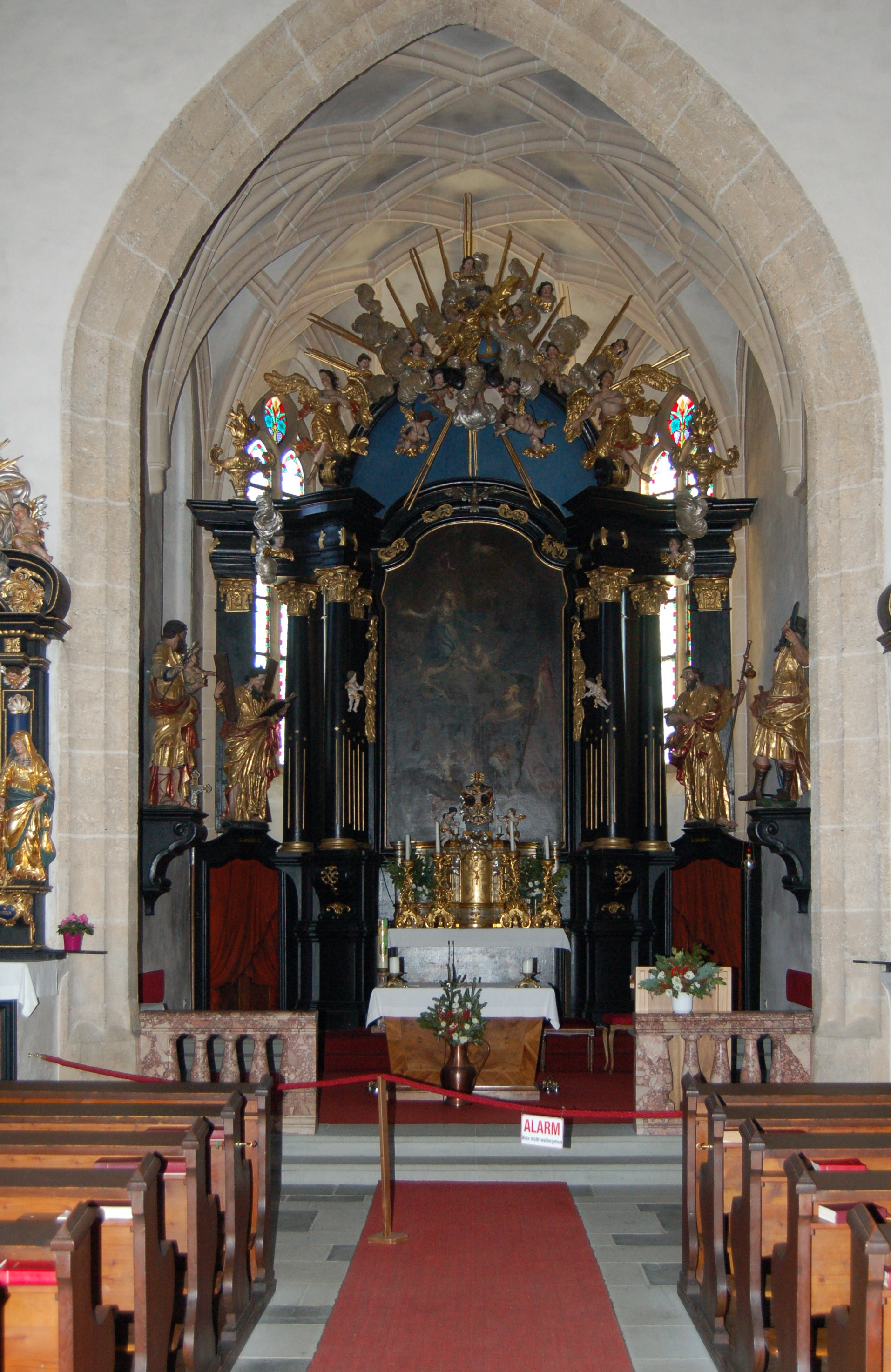 Parish church hl. Leopold, municipality of Vorderstoder, Upper Austria.